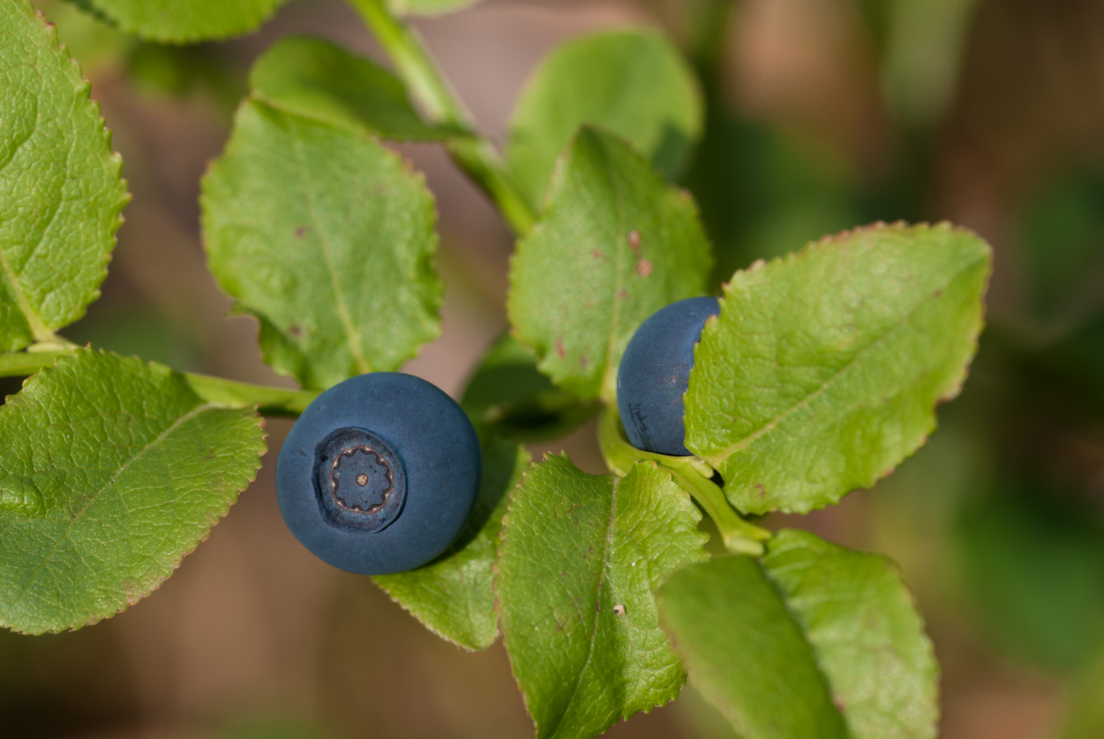 Bilberries and leaves on a twig.